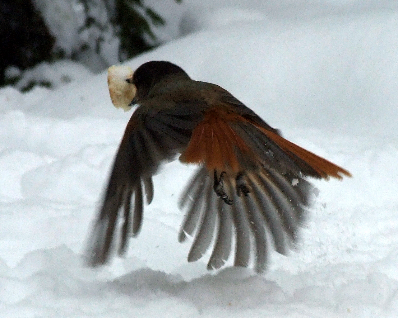 A Siberian Jay (Perisoreus infaustus) in Kittilä, Finland